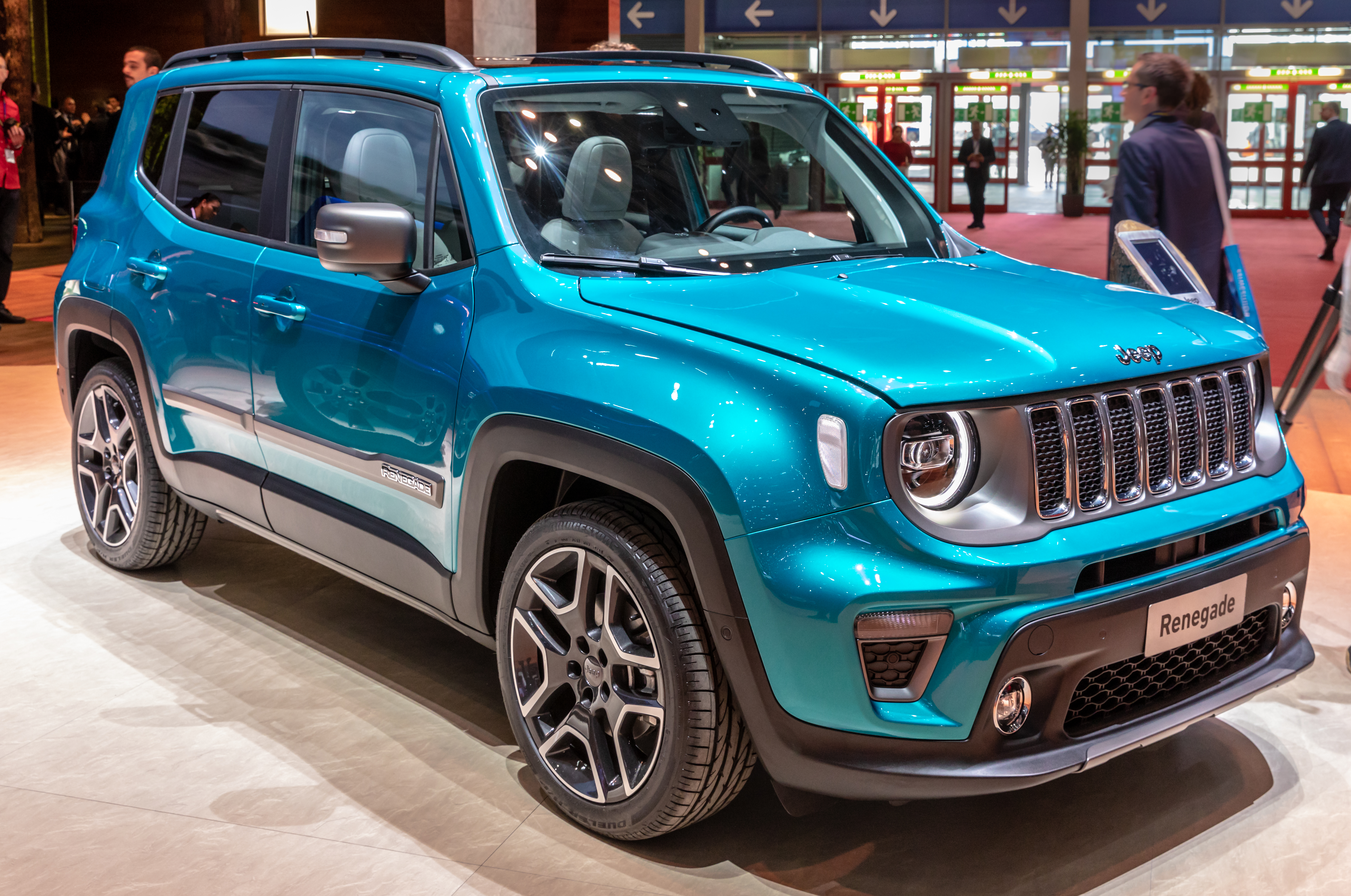 Jeep Renegade at Geneva International Motor Show 2019, Le Grand-Saconnex